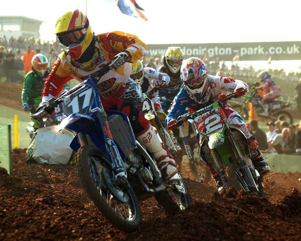 Red Bull FIM Motocross of Nations 2008, Donington Park (England). First laps, with Carlos Campano (17), Ryan Villopoto (2), etc.